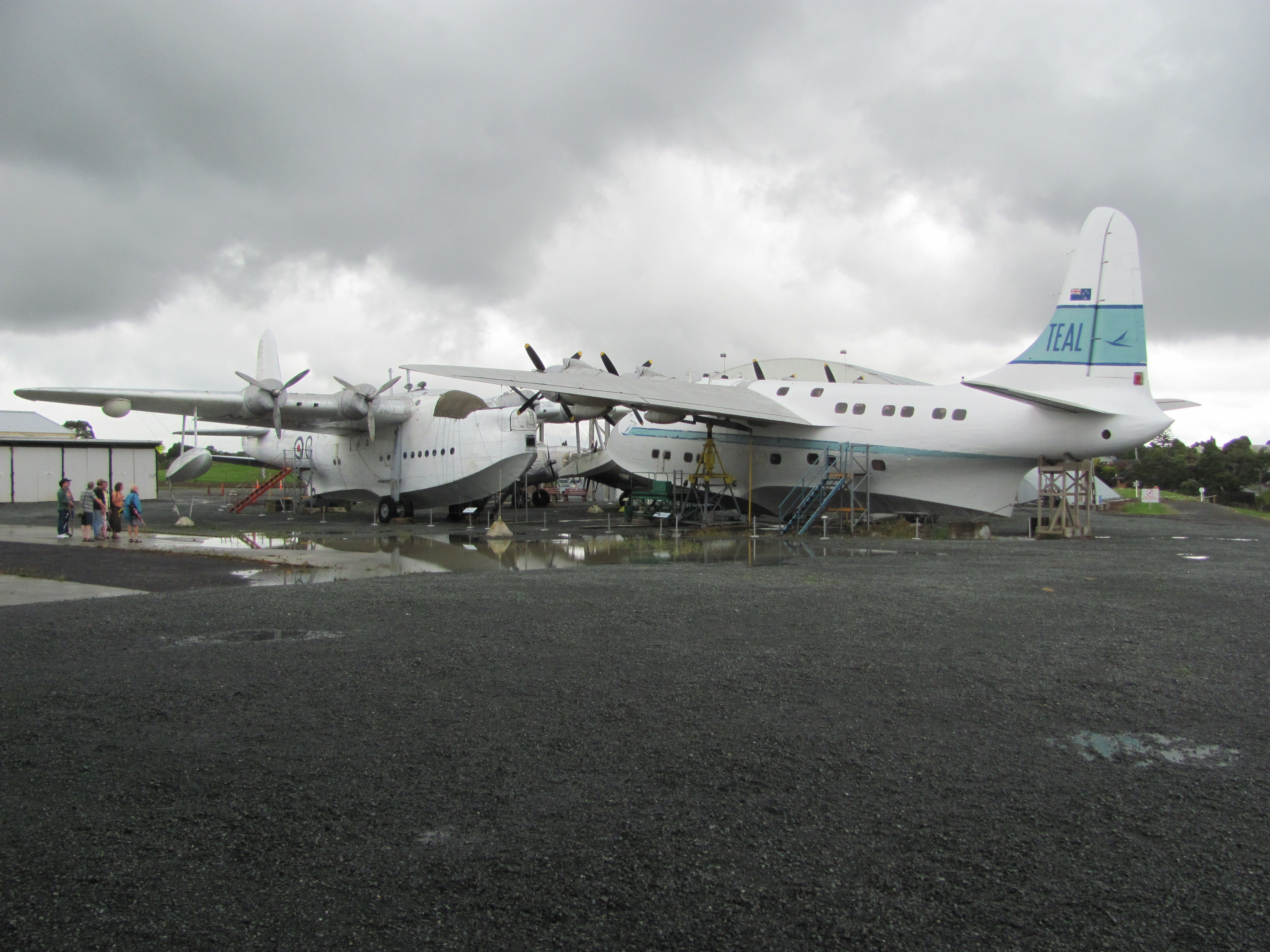 Flying boats in MOTAT